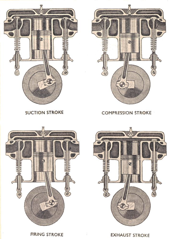 Four-stroke cycle (Manual of Driving and Maintenance).jpg